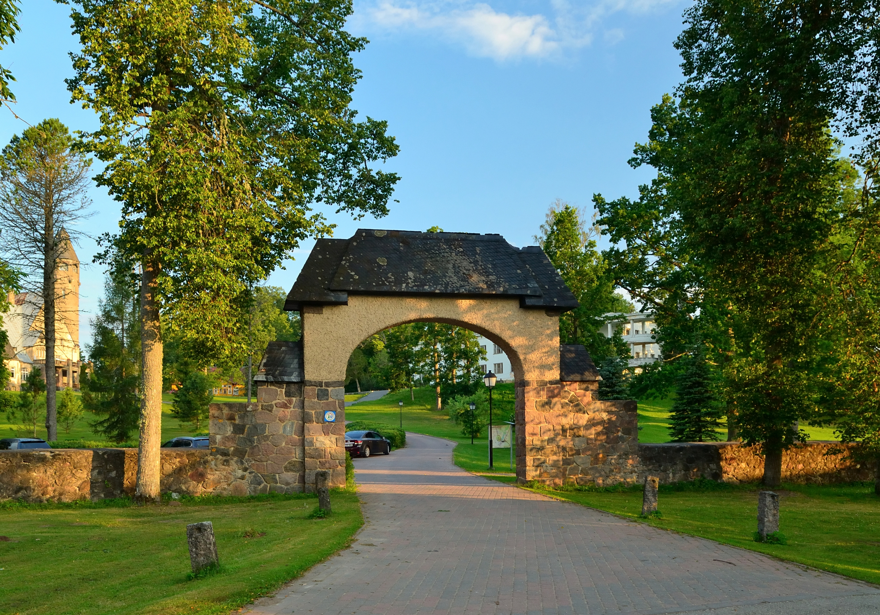 Taagepera manor gate